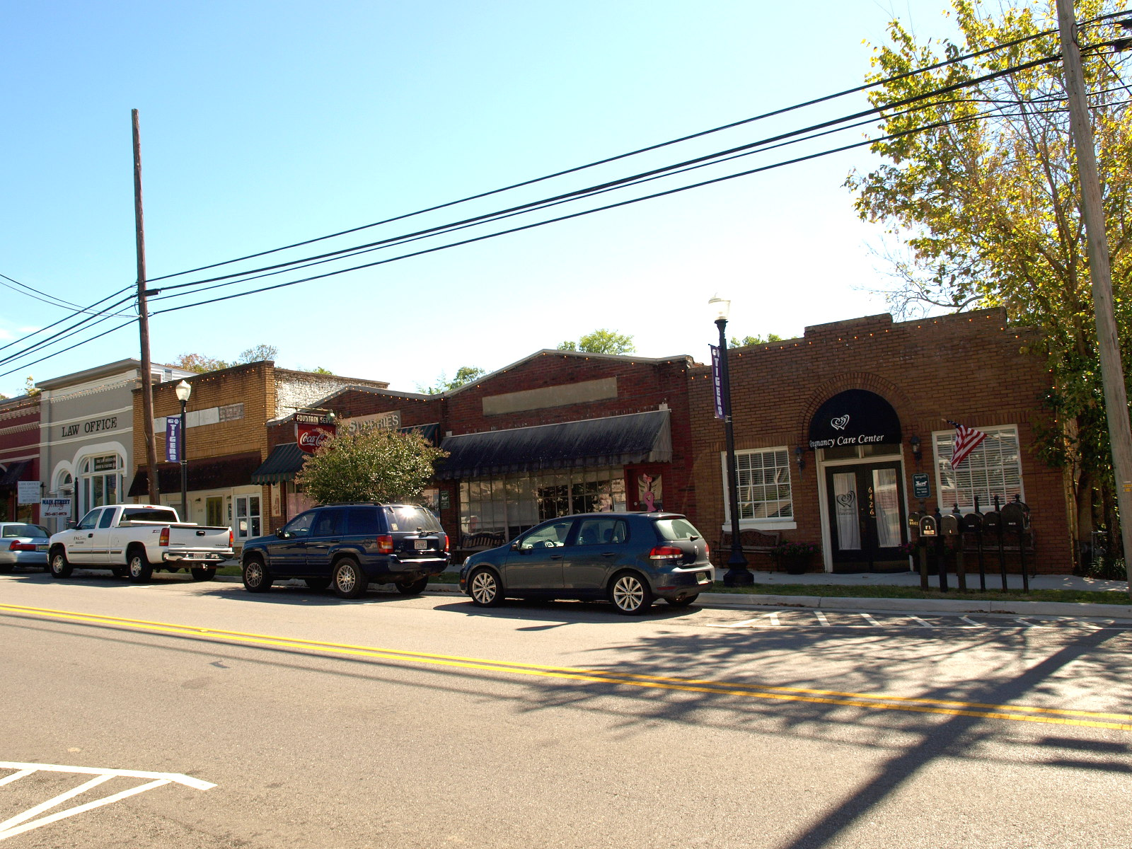 Buildings on Main Street in Springville, Alabama, part of the Springville Historic District.